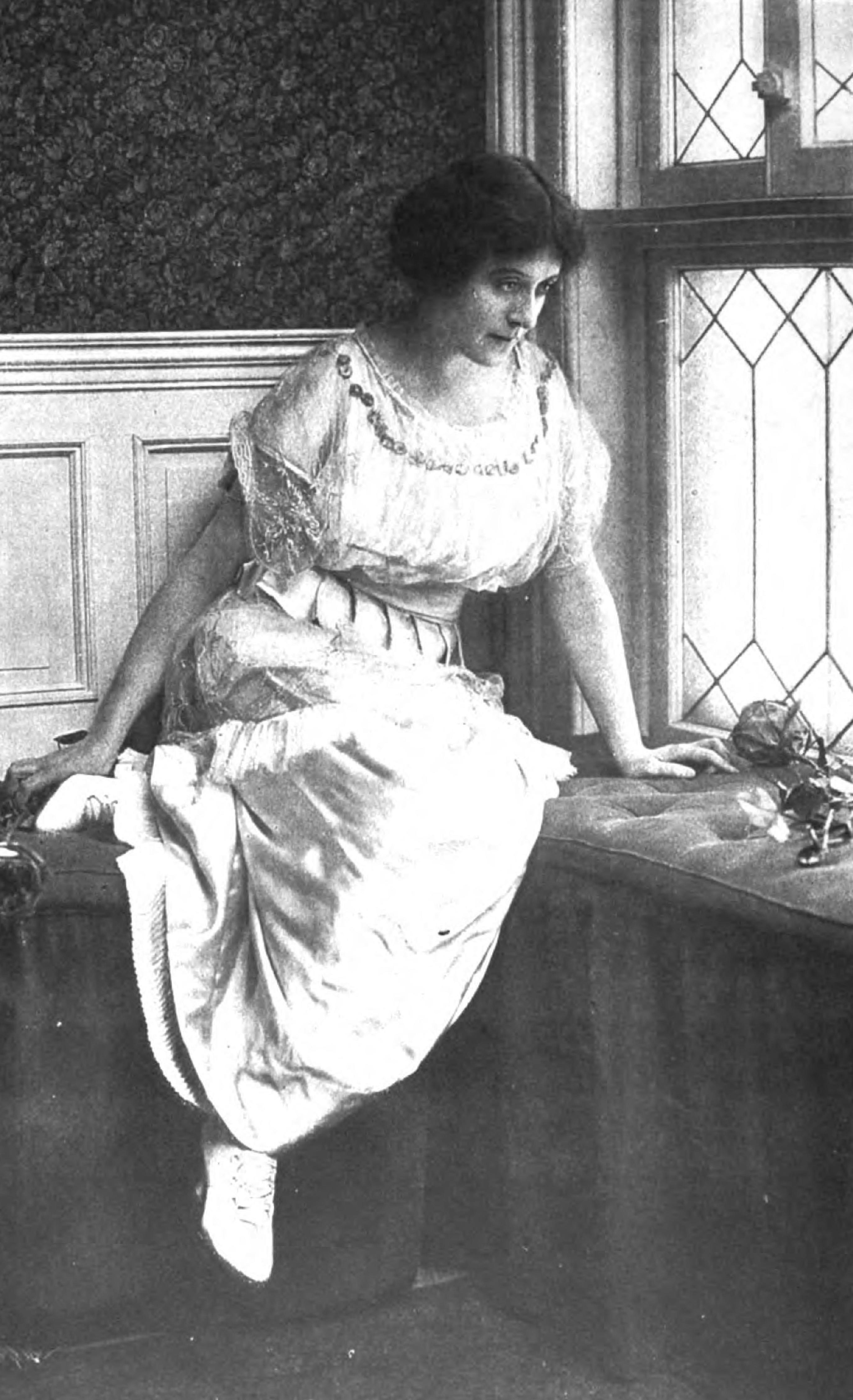 Mary Charleson (1890–1961). Mother of Patricia Walthall. Born: May 18, 1890 in Dungannon, Ireland. Died: December 3, 1961 (age 71) in Los Angeles, California, USA.